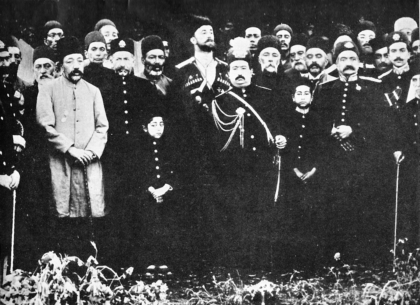 Mohammed Ali Shah and his suite, 1909